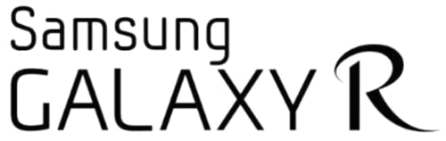 Logo of the Samsung Galaxy R smartphone.